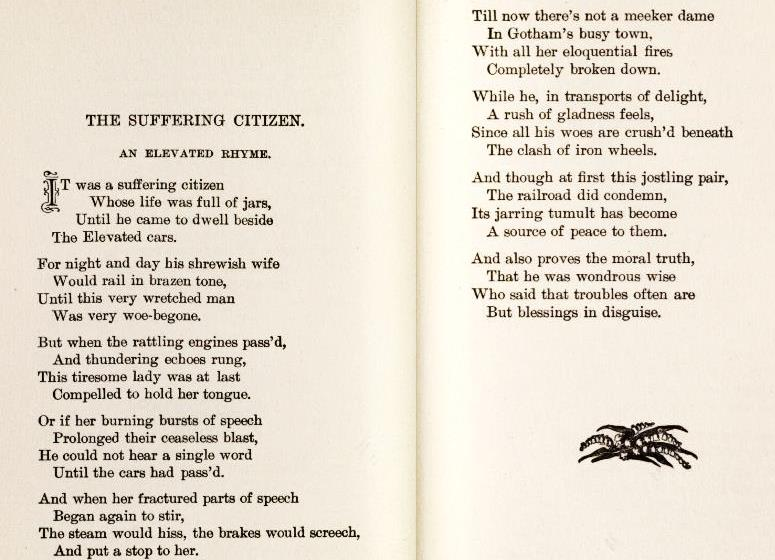 James Mackintosh Kennedy poem "The Suffering Citizen" from Scottish and American Poems, 1899, pp. 138-139. James Mackintosh Kennedy